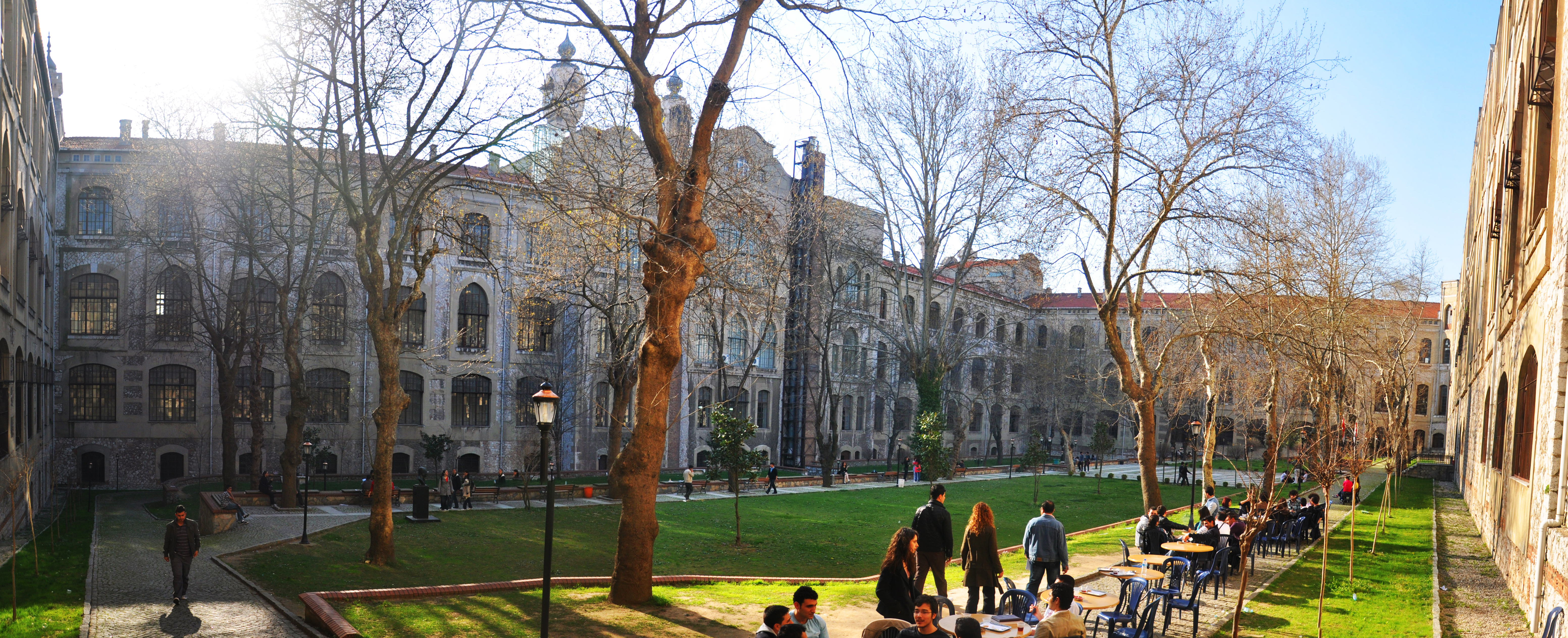 Marmara University's inner campus photo made by own professional camera.